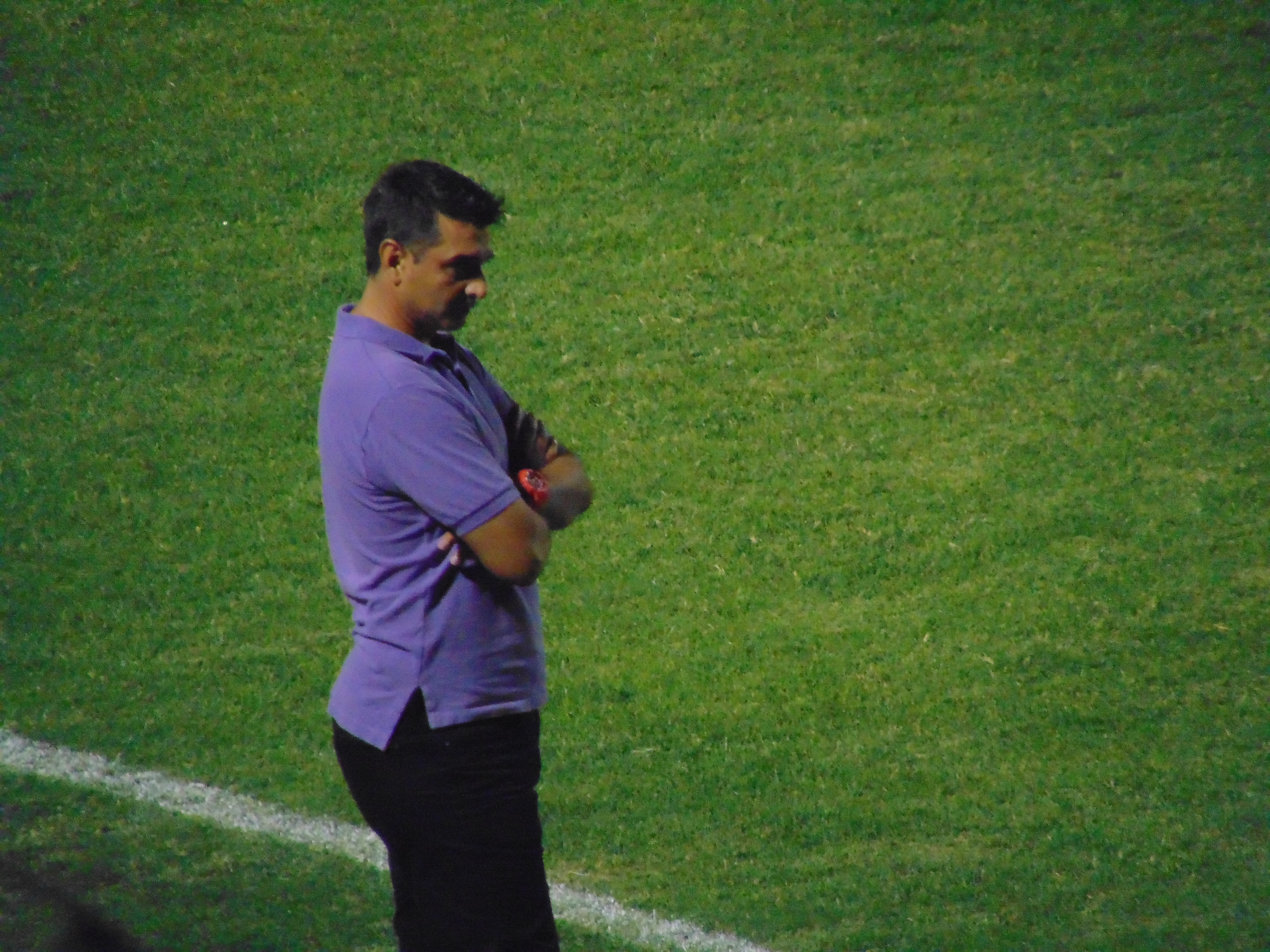 Vásquez during a 2015 game.